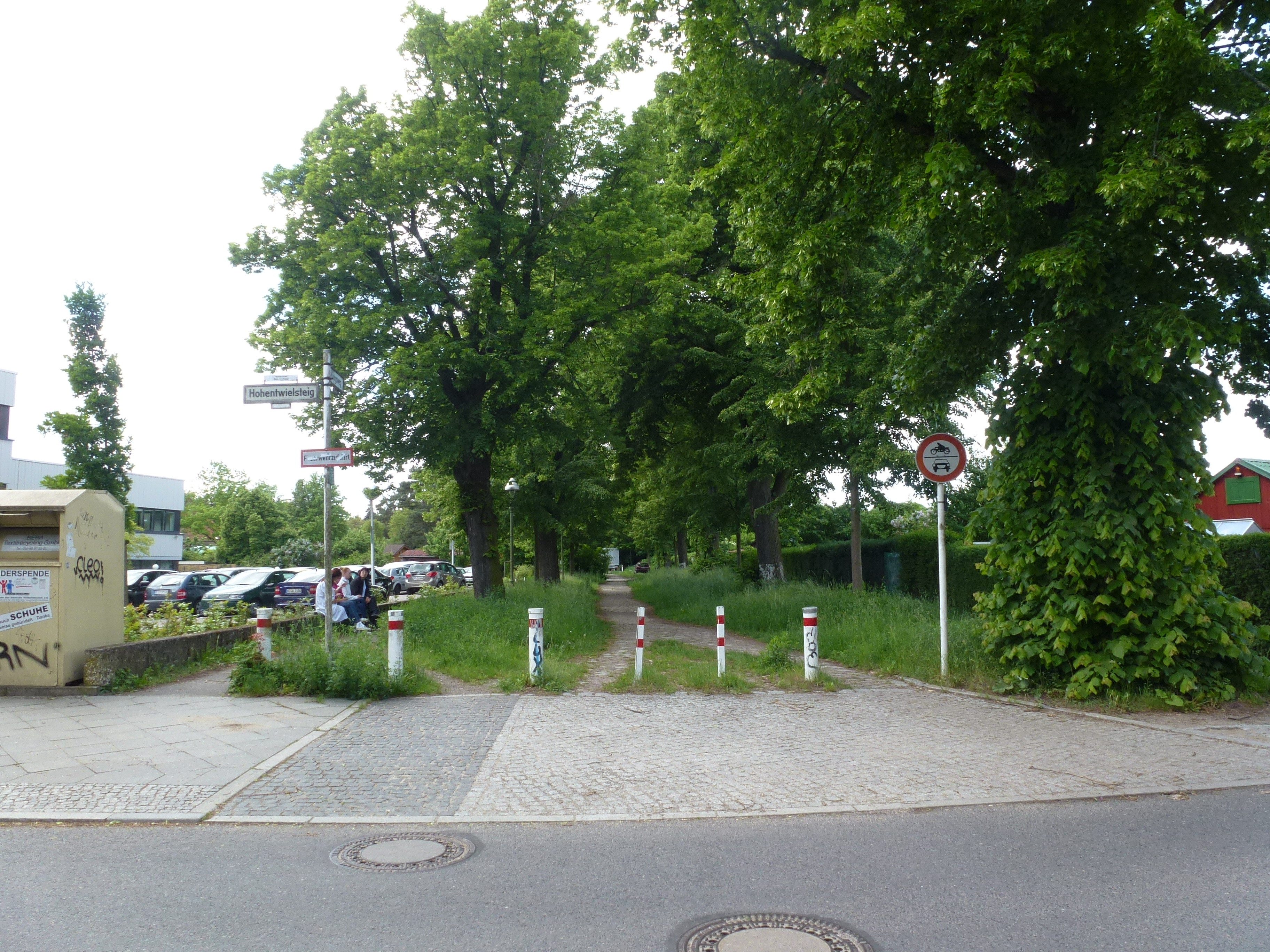 Berlin-Zehlendorf Königsweg